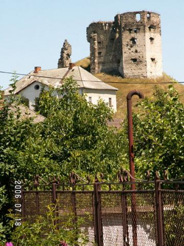 Nagykövesd, Castle, Photography, Slovakia